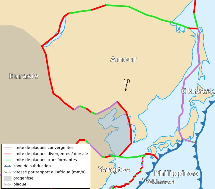 Map of the Amurian Plate